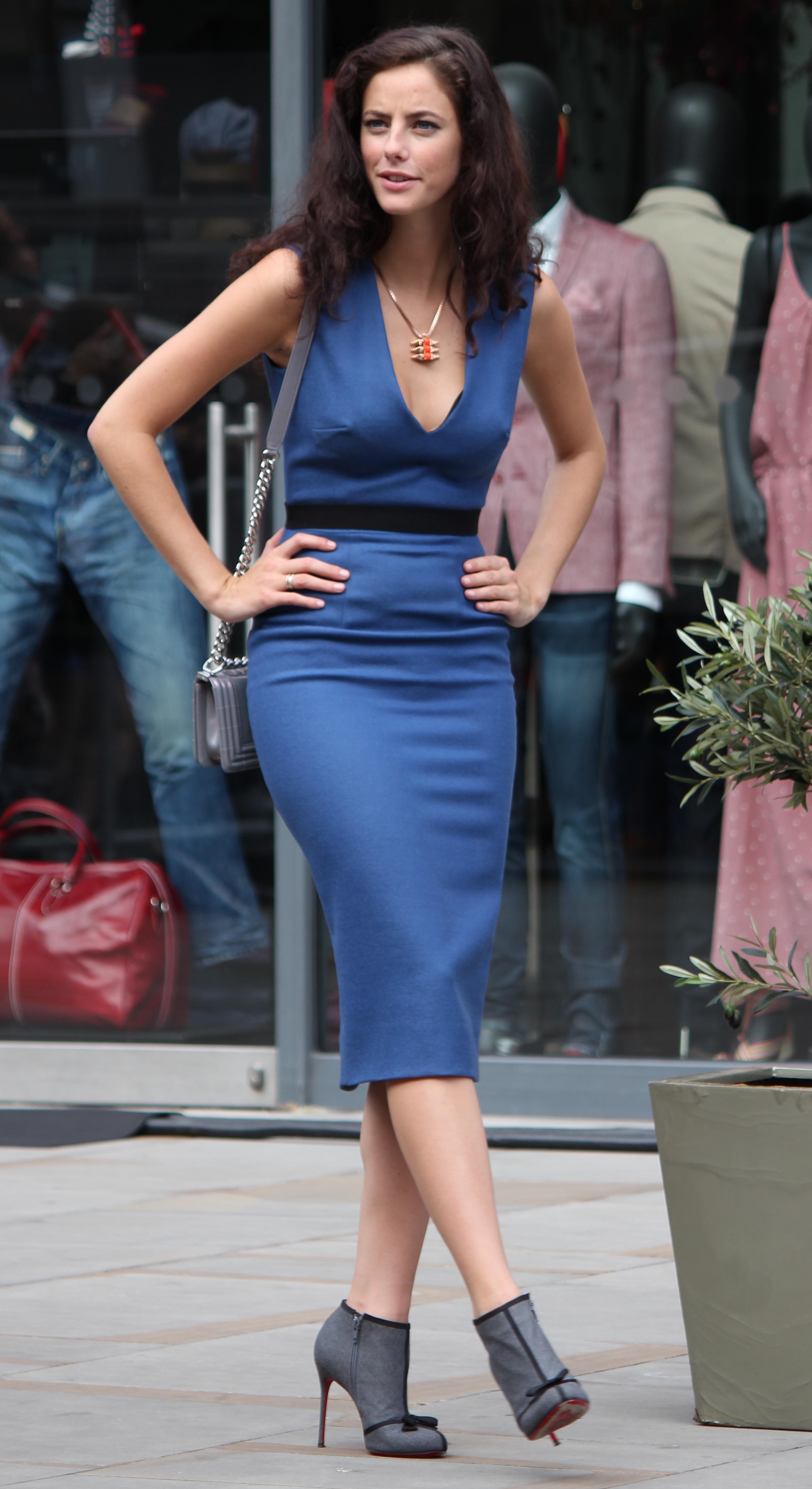 Kaya Scodelario at the Robbie Williams filming his new music video "Candy" at Old Spitalfields Market, (August 2012).